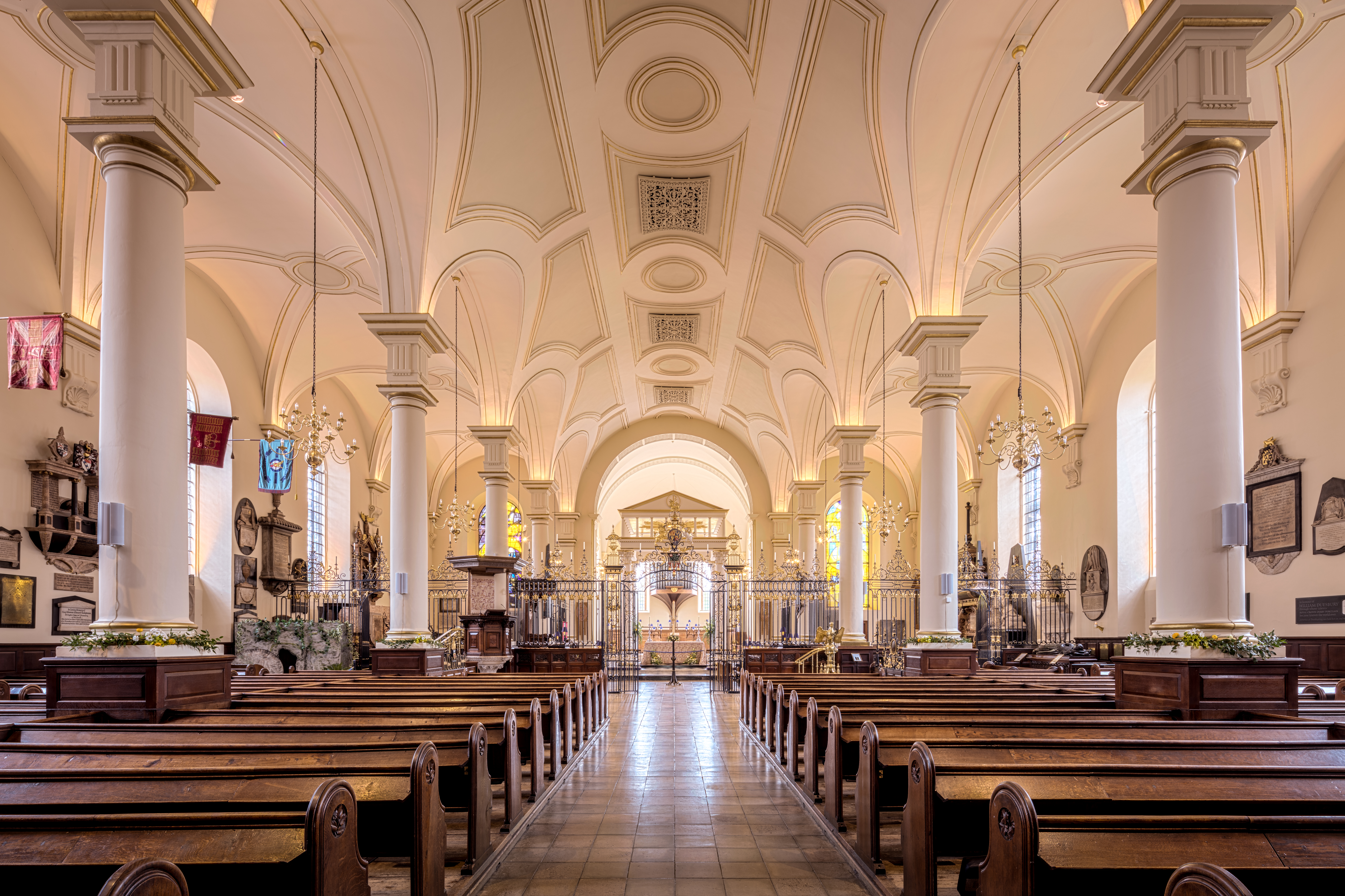 Here is an hdr photograph taken from inside Derby Cathedral. Located in Derby, Derbyshire, England, UK.